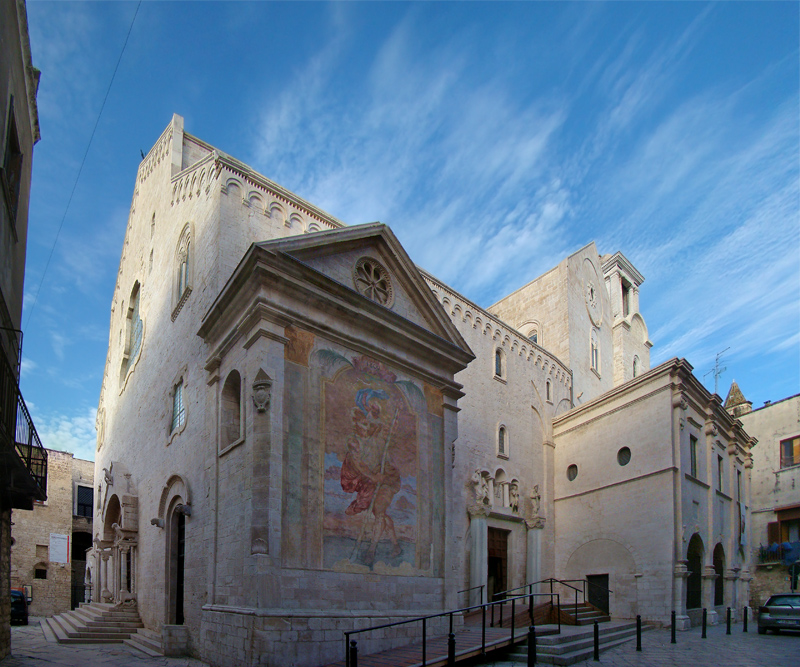 Cocathedral of San Pietro Apostolo, Bisceglie, Apulia, Italy.